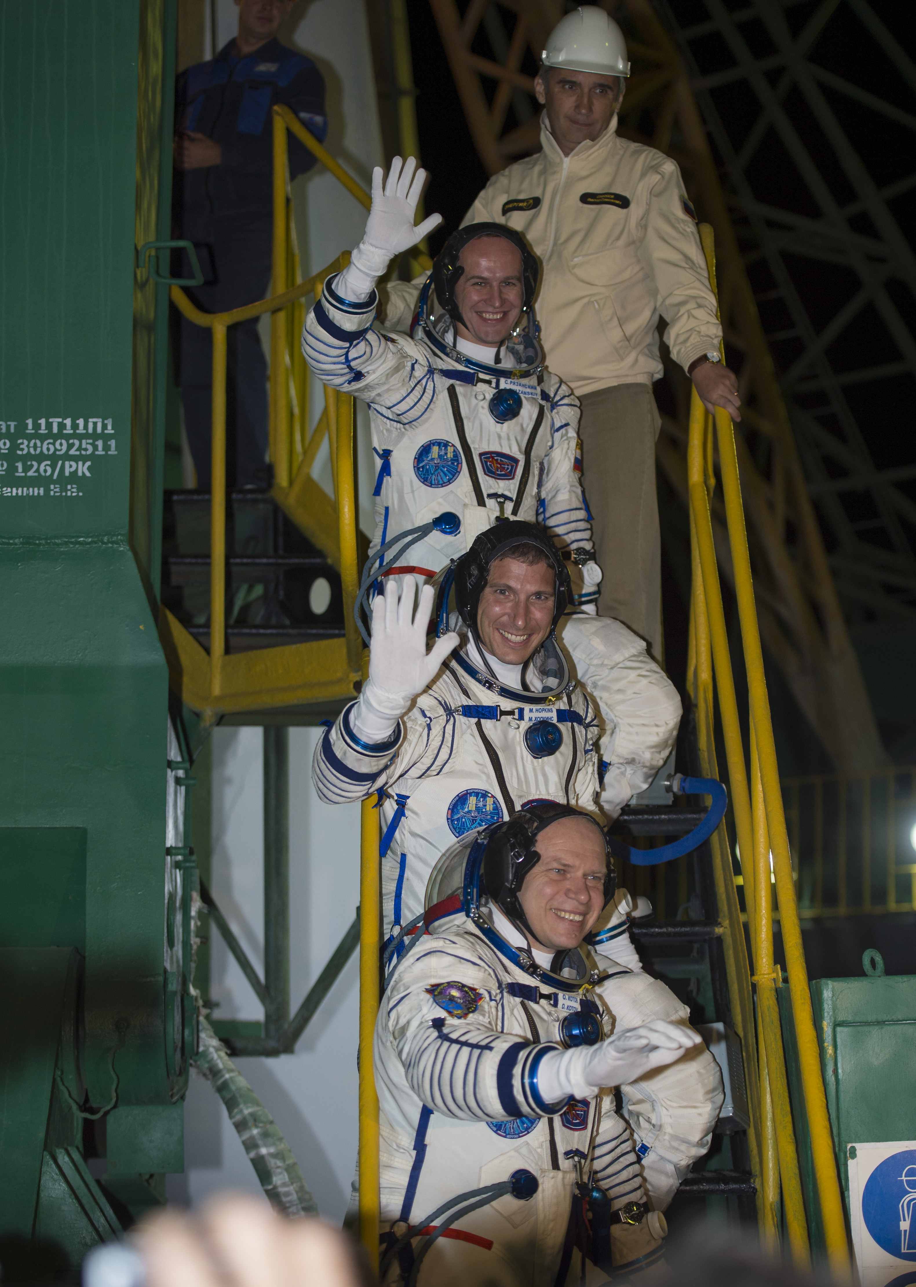 Expedition 37 Russian Flight Engineer Sergey Ryazanskiy, top, NASA Flight Engineer Michael Hopkins, Soyuz Commander Oleg Kotov, bottom, wave farewell from the base of the Soyuz rocket at the Baikonur Cosmodrome in Baikonur, Kazakhstan, Thursday, Sept. 26, 2013. Their Soyuz TMA-10M rocket is scheduled to launch at 2:58 a.m. local time.